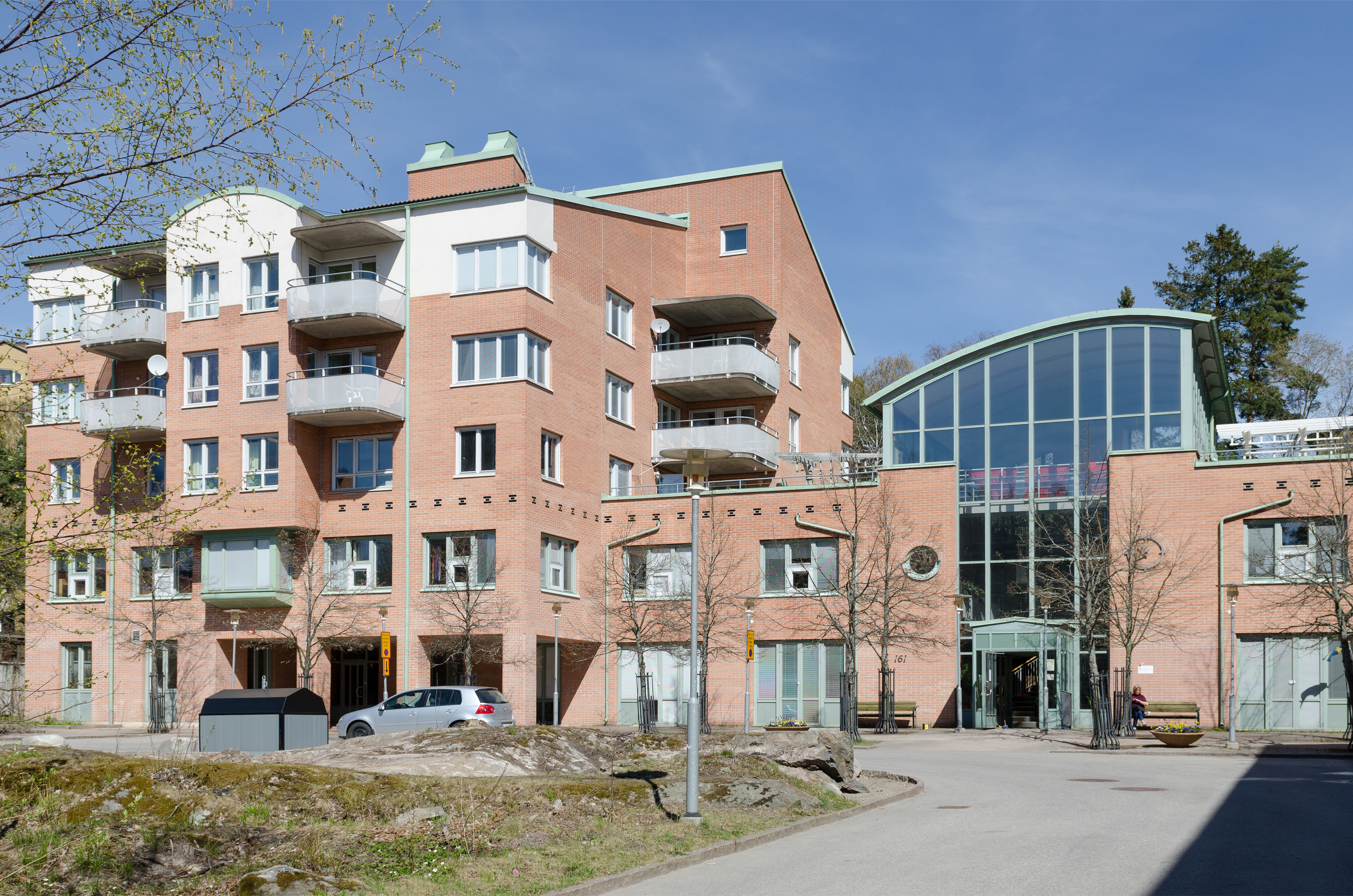 Kvarteret Kryddgården, Hökarängen. Built 1994. Architect: Brunnberg & Forshed